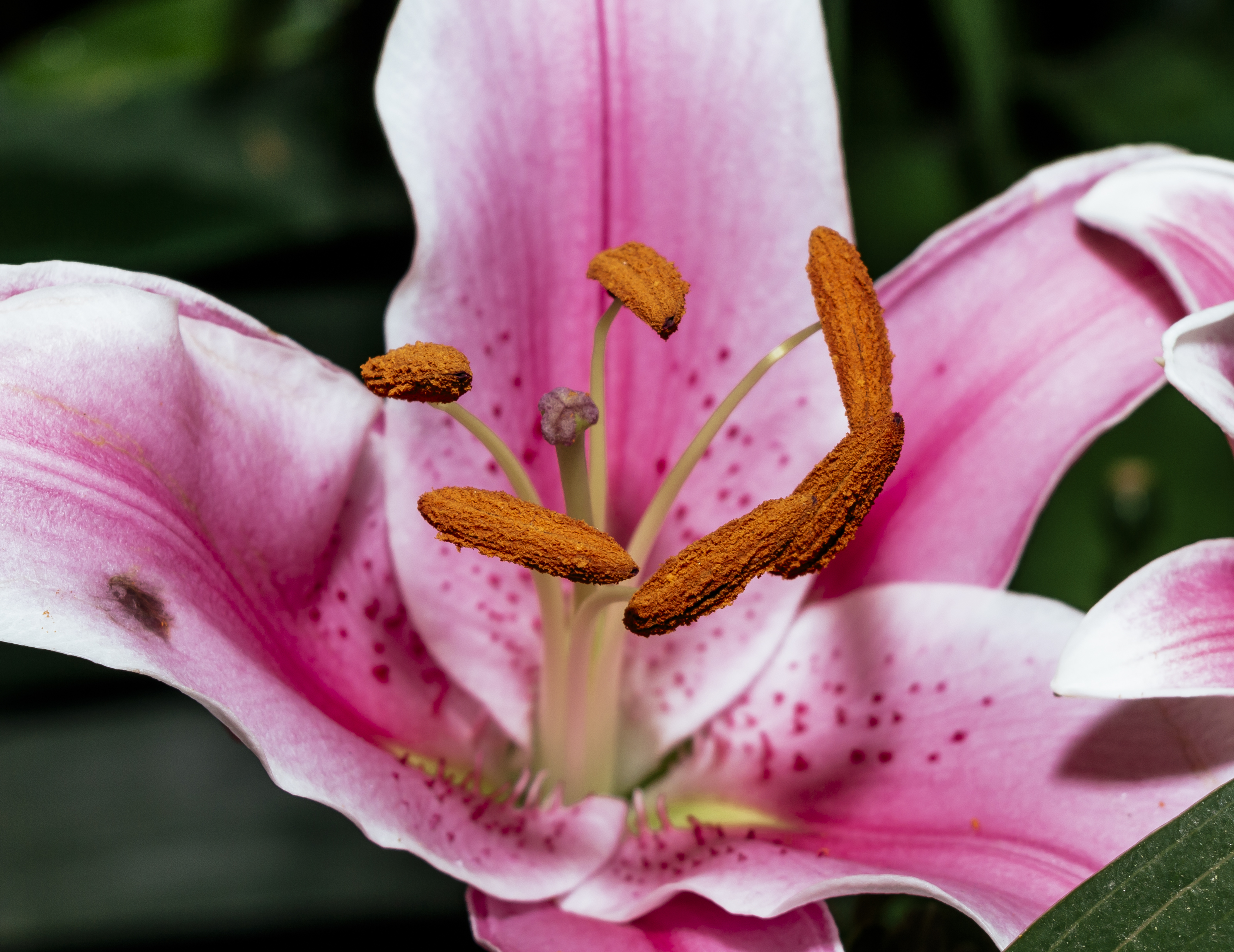 Closeup of Lilium 'Stargazer' (the 'Stargazer lily')